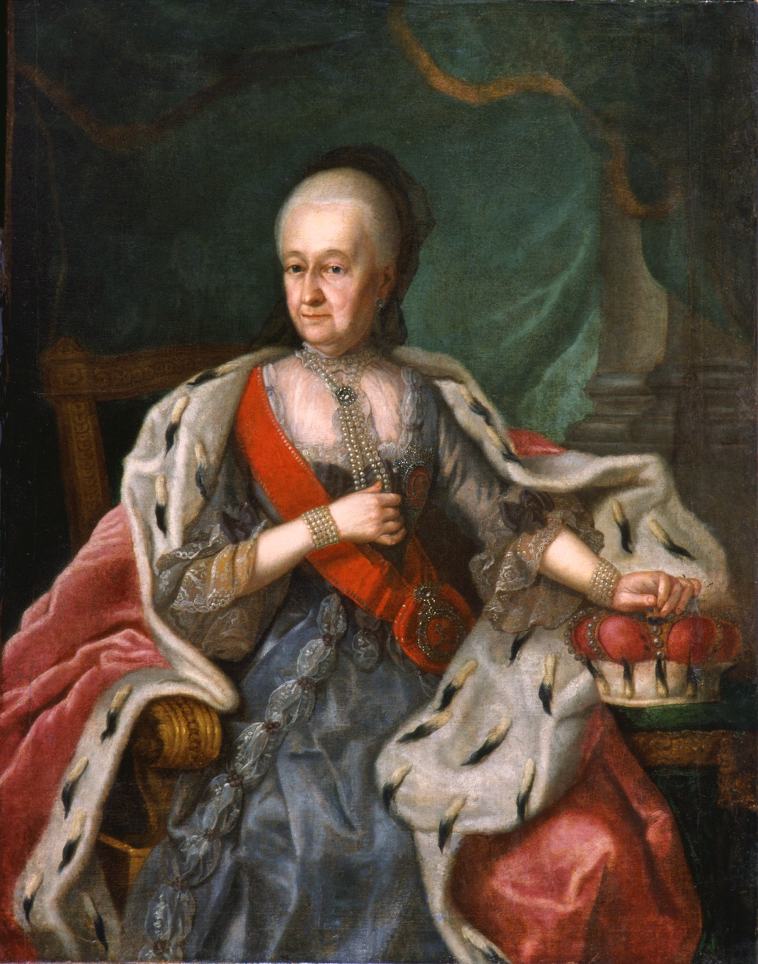 Benigna Gottlieb von Trotha genannt Treyden, dowager duchess of Courland and Semigallia